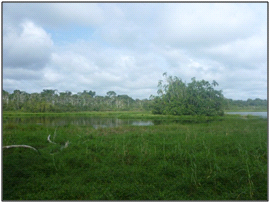 Alluvial Landscape